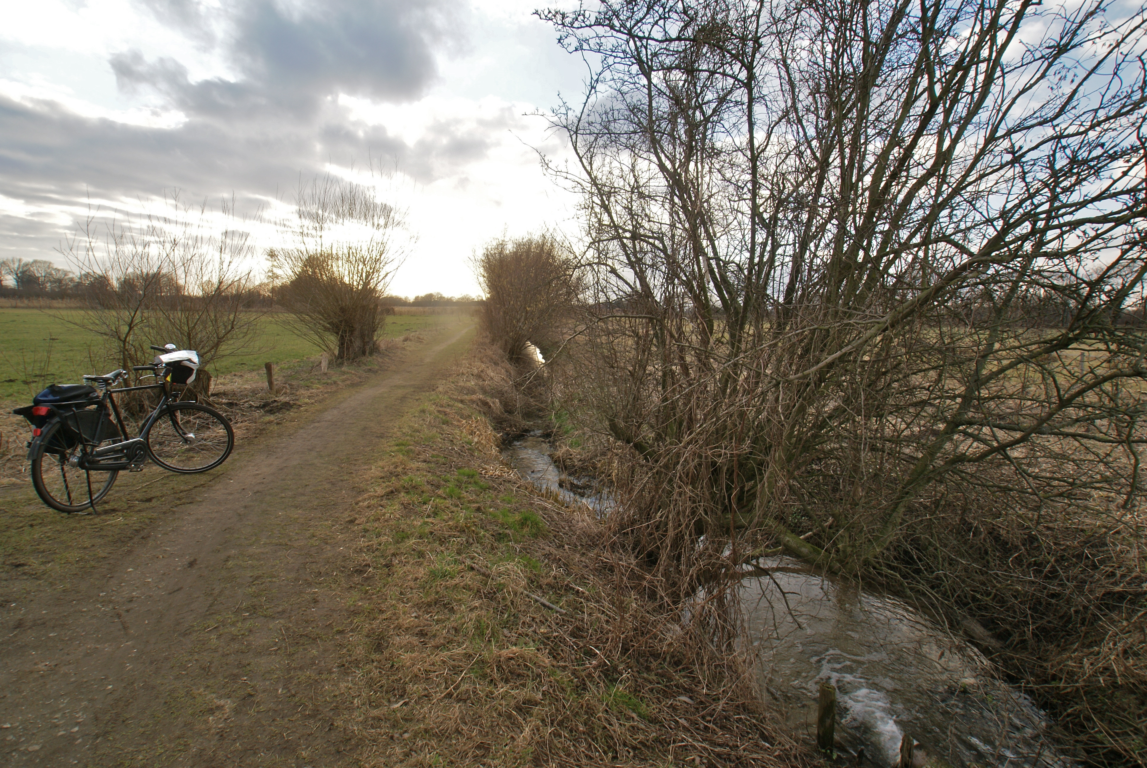 Bargfeld-Stegen, Germany: The river Wedenbek